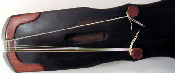 Picture of how the guqin is stringed traditionally.